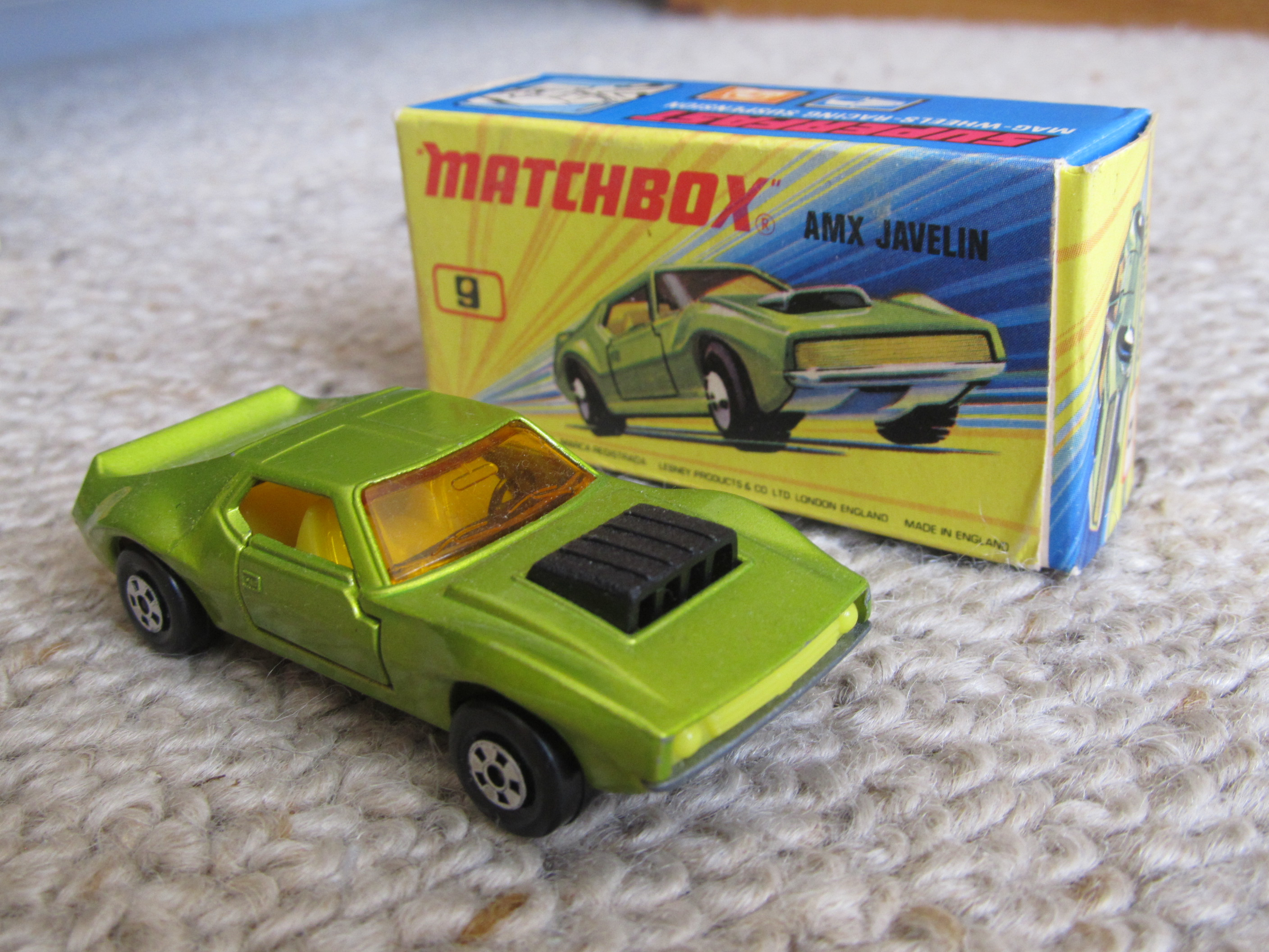 This is one of my favourites, and is in impeccable condition. I have my father to thank for preserving his Superfast cars - forty years on down the track, they are as they would be new. I think the boxes make them more valuable?